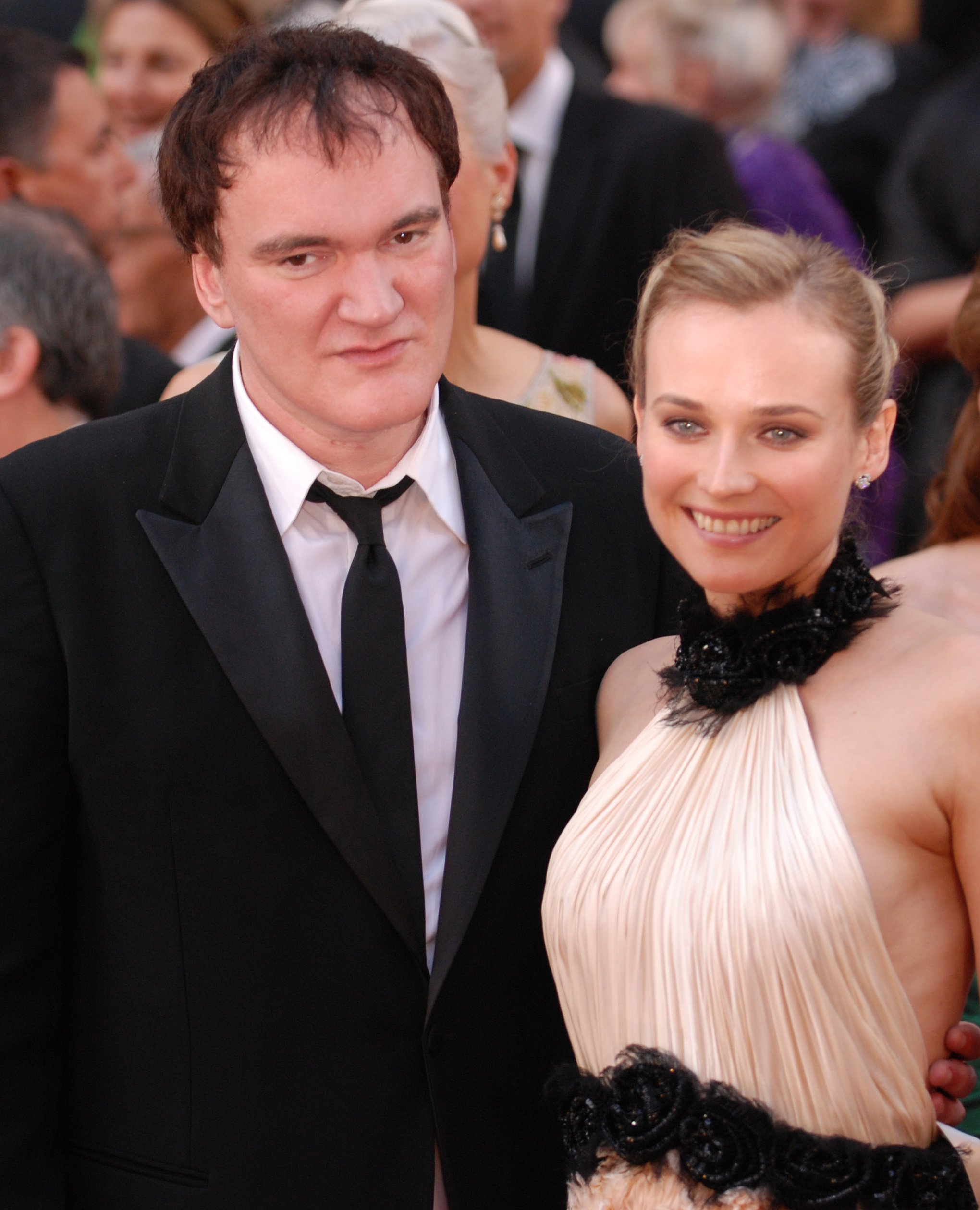 Quentin Tarantino and Diane Kruger look anything but inglorious on the red carpet at the 82nd Academy Awards, March 7, in Hollywood, Calif. Tarantino was nominated for his directorial efforts.